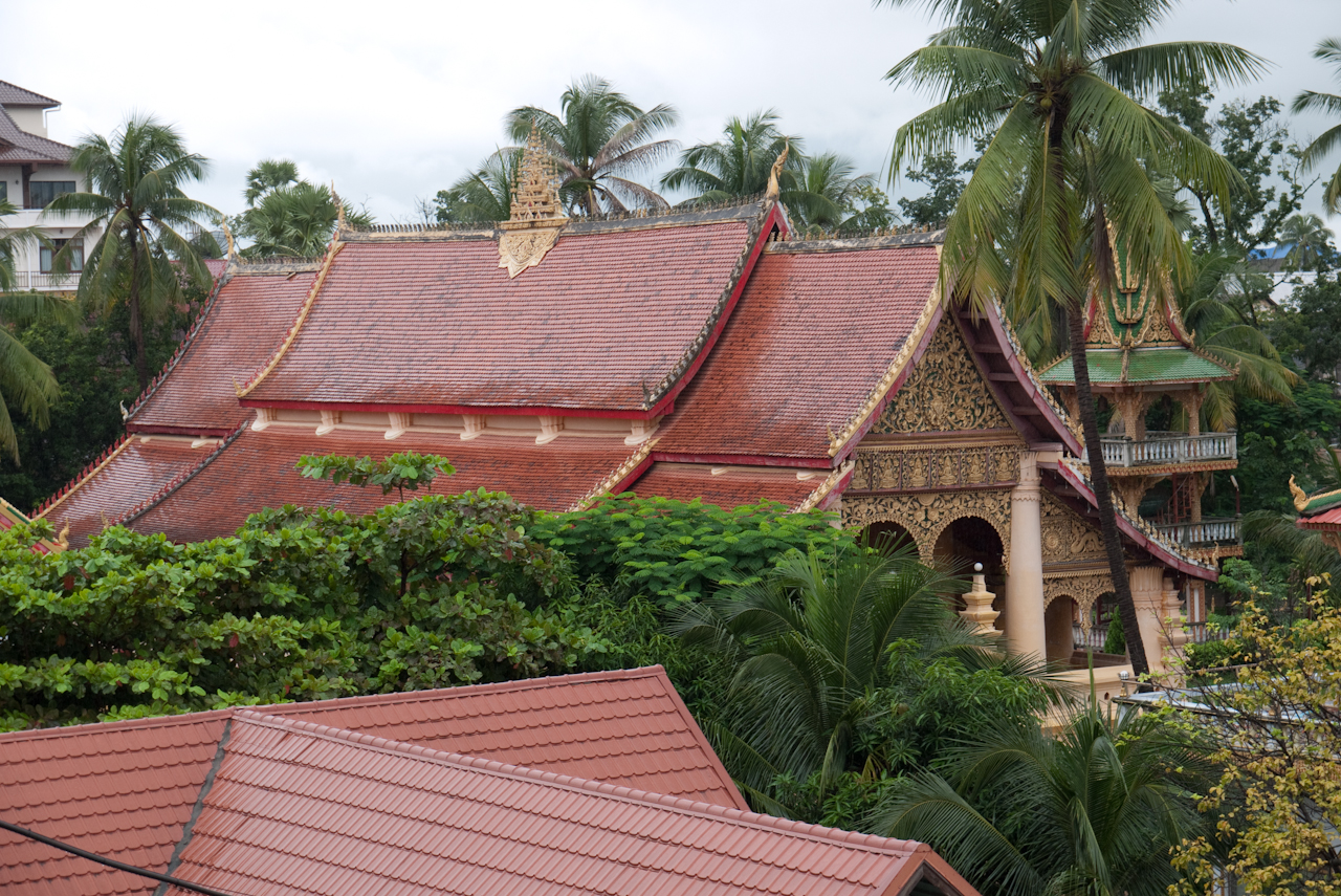 Wat Ong Tu (full name Wat Ong Tu Mahawihan) was built in 1566 by King Sai Setthathirat I (1550-1571) following the relocation of the capital to Vientiane. Located on an ancient religious site reputed to date back to the 3rd century, the original Wat Ong Tu functioned as the king's temple and ceremonies of allegiance to the monarch were held here prior to 1975. The temple is named for the large ‘heavy Buddha’ (Phra Ong Tu) found at the rear of the sim, one of seven Ong Tu Buddha images established by King Sai Setthathirat I during a period of Buddhist renewal throughout the country. The original Wat Ong Tu was destroyed in the 1827-8 war with Siam and has been reconstructed several times since, latterly in 1911.